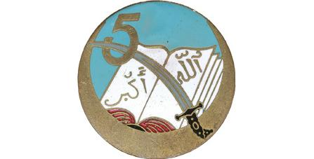 Regimental badge of the 5th Rifle Regiment Algerians (France).